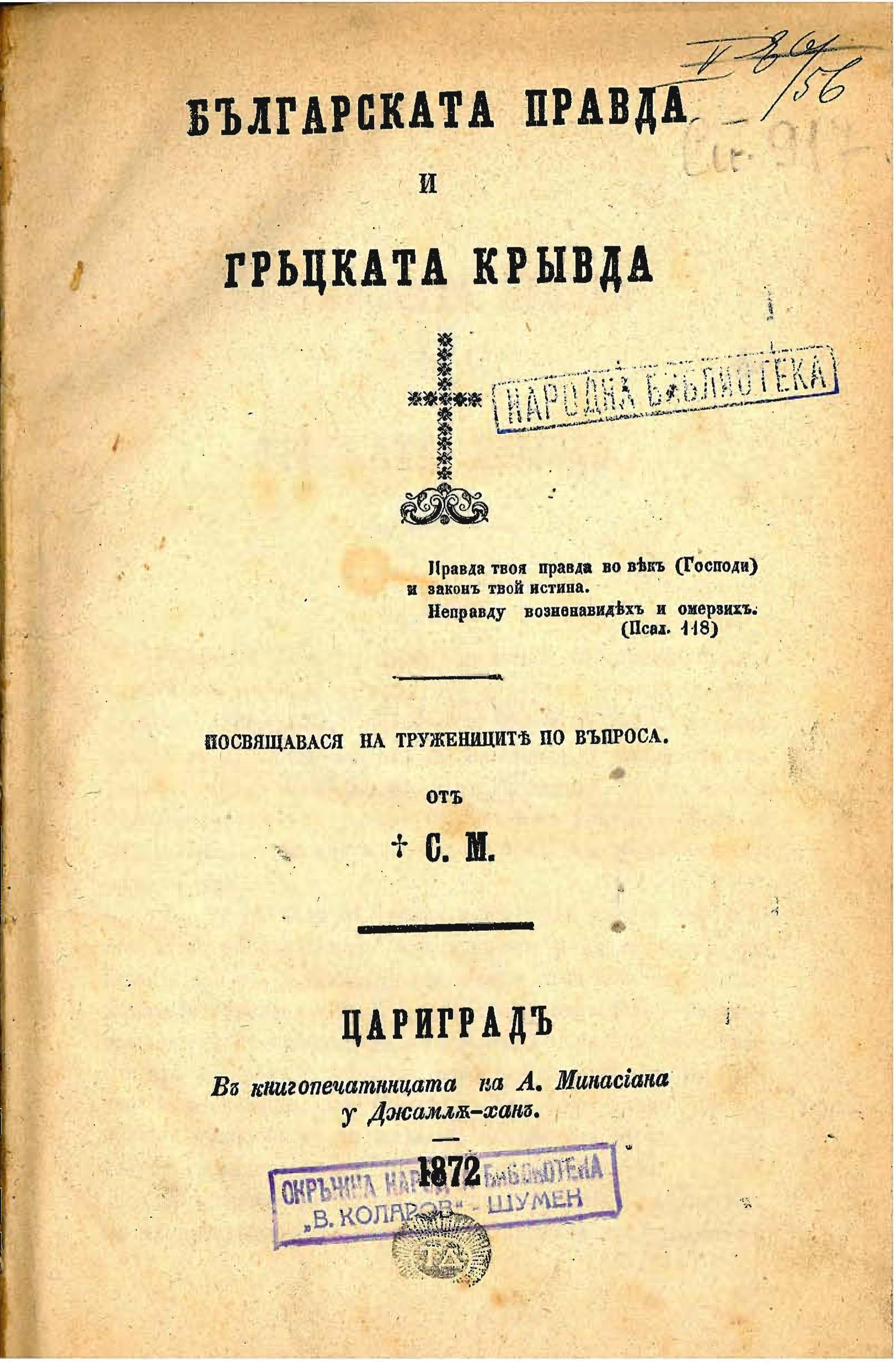 Bulgarian Rightfulness, Greek Fallacy 1872